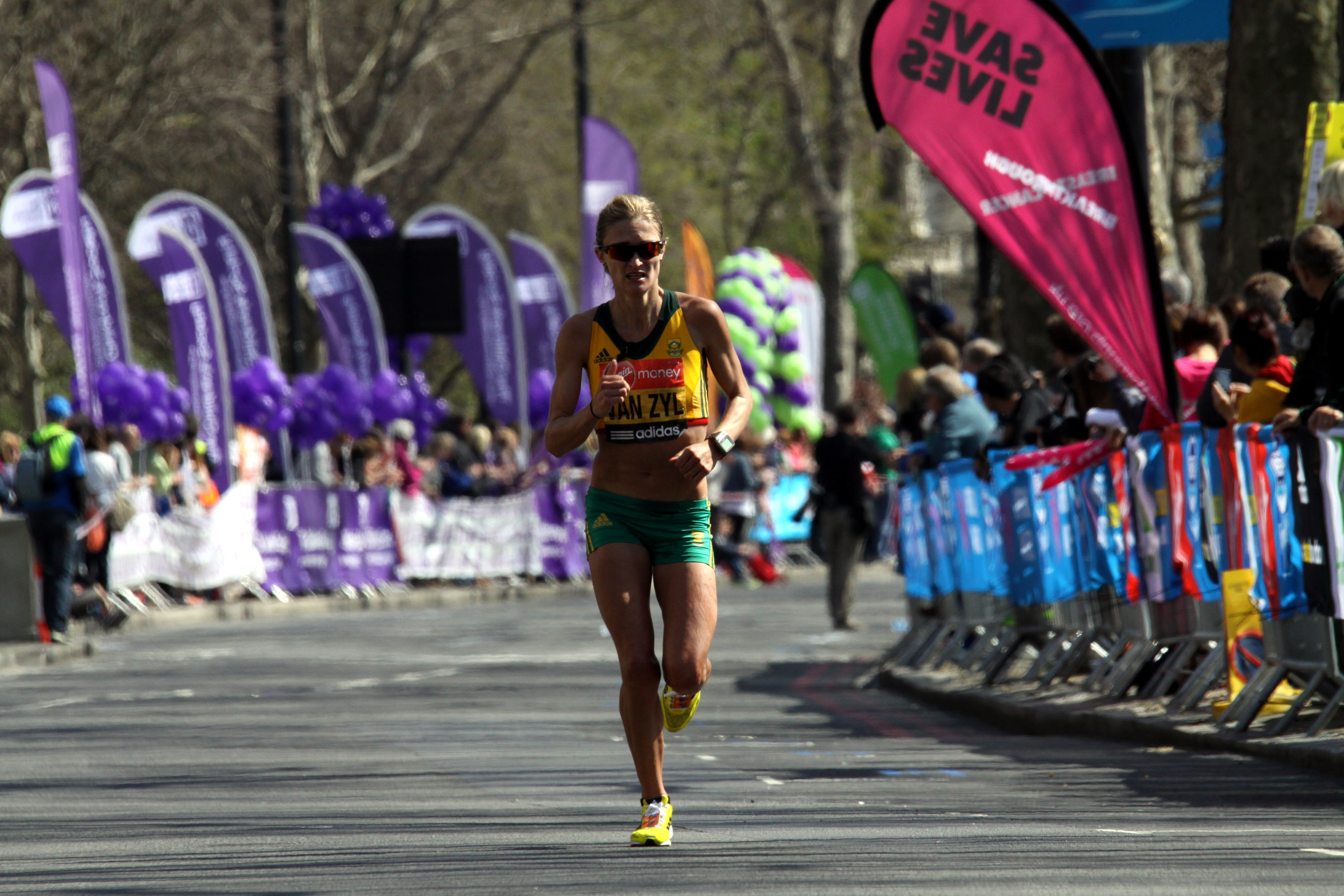 Irvette Van Zyl during 2013 London Marathon, photographed at Victoria Embankment, London, Great Britain. The making of this file was supported by Wikimedia UK. - Google Maps - Google Earth